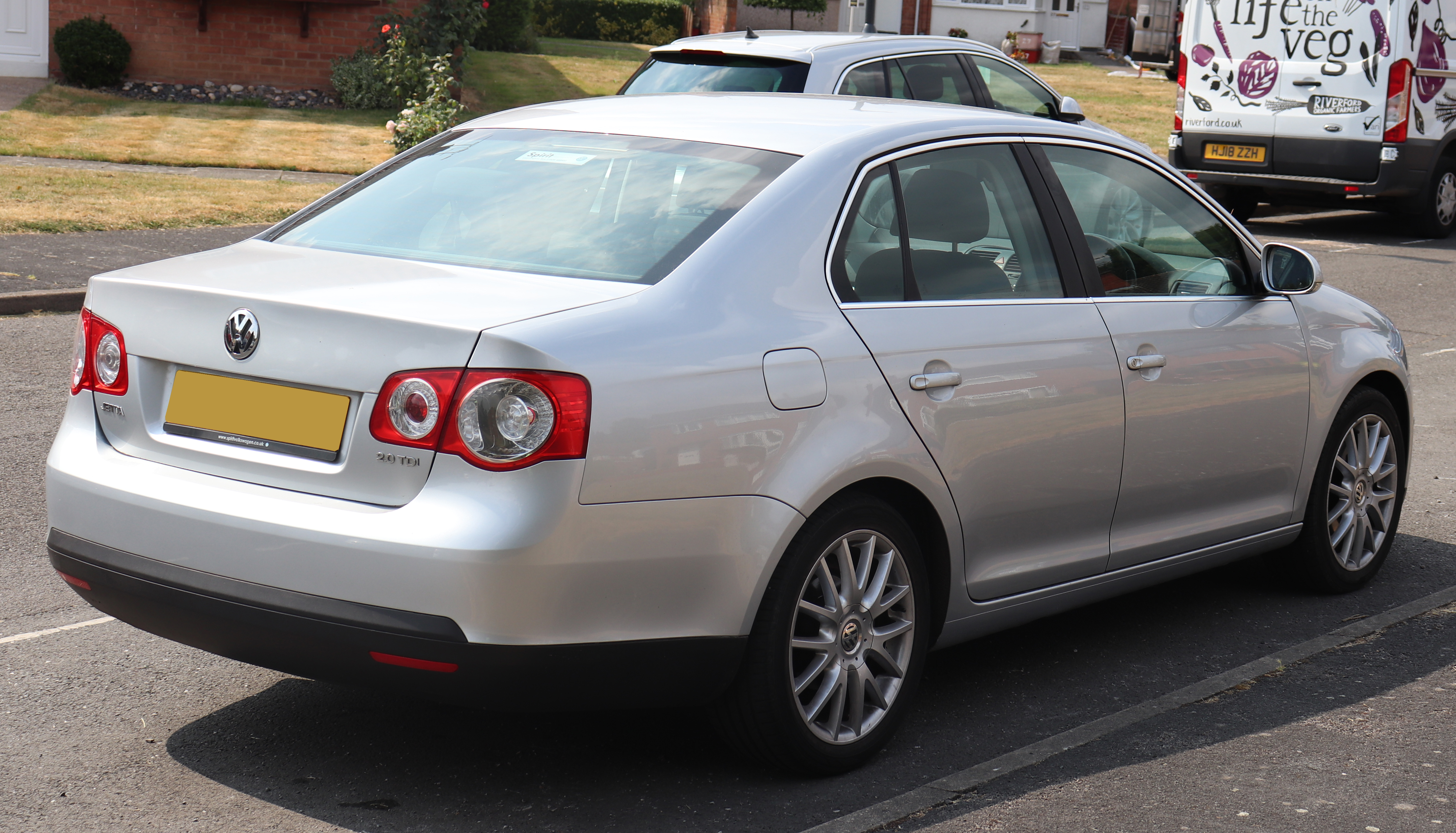 2007 Volkswagen Jetta Sport TDi 2.0 Rear Taken in Warwick